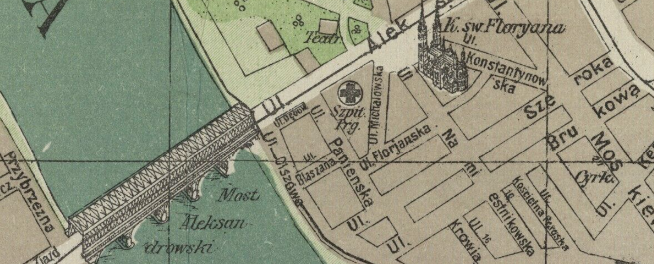 Olszowa Street on the plan of the town of Warsaw 1915